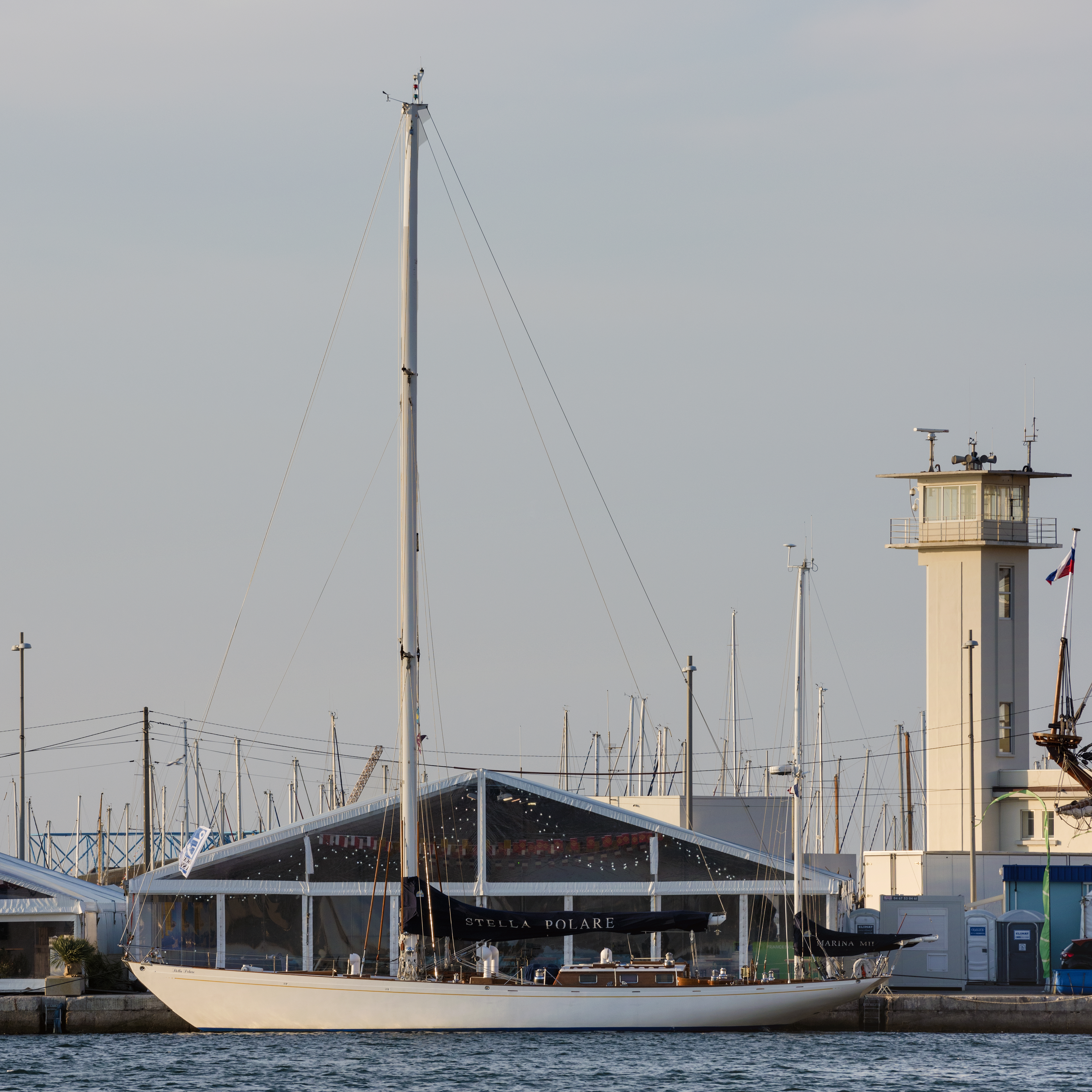 Stella Polare (ship, 1965). During the event "Escale à Sète 2016". Sète, Hérault, France